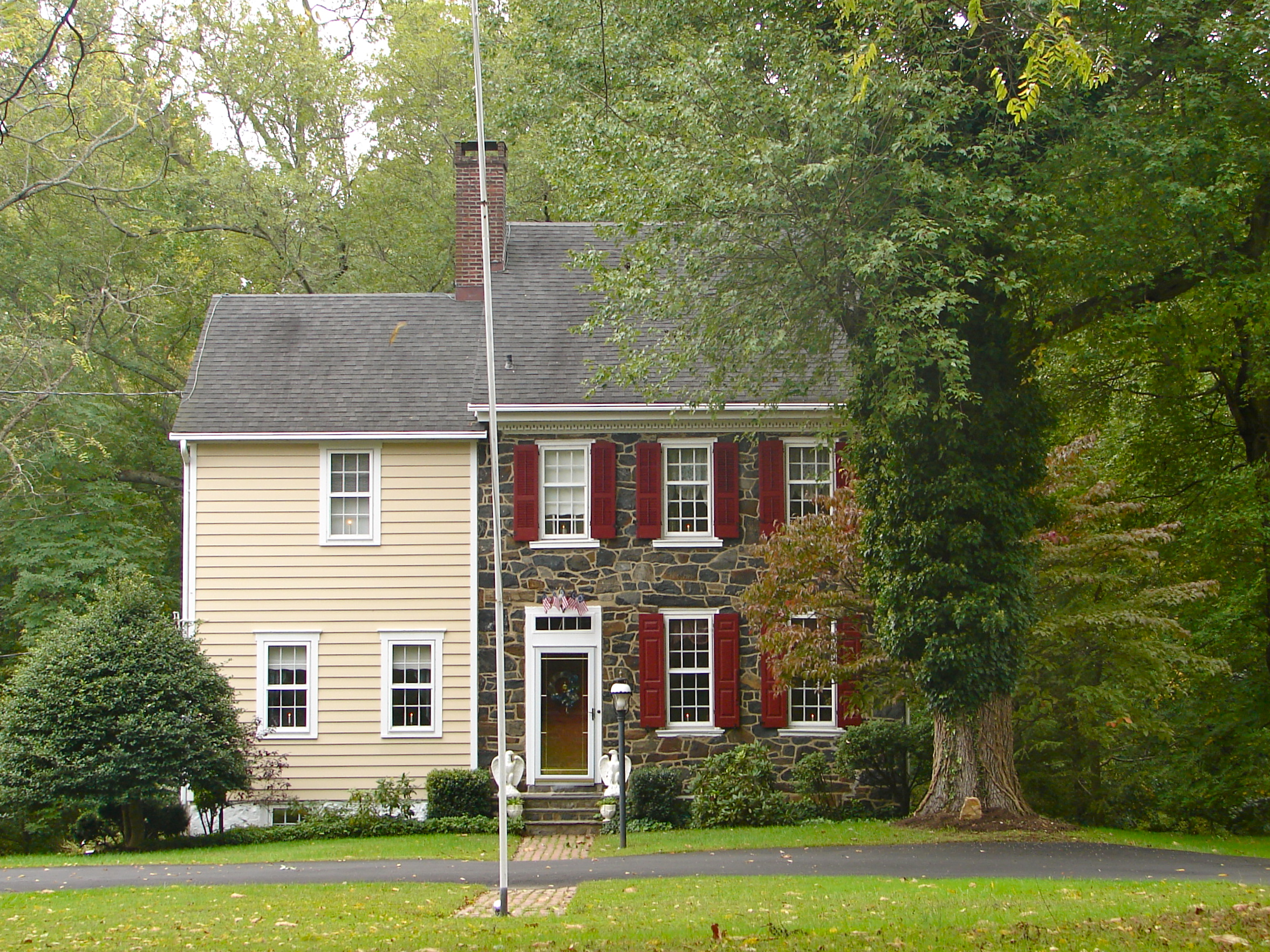 Montgomery House on the NRHP since July 28, 1988. At 2900 Old Limestone Rd., near Wilmington, Delaware.